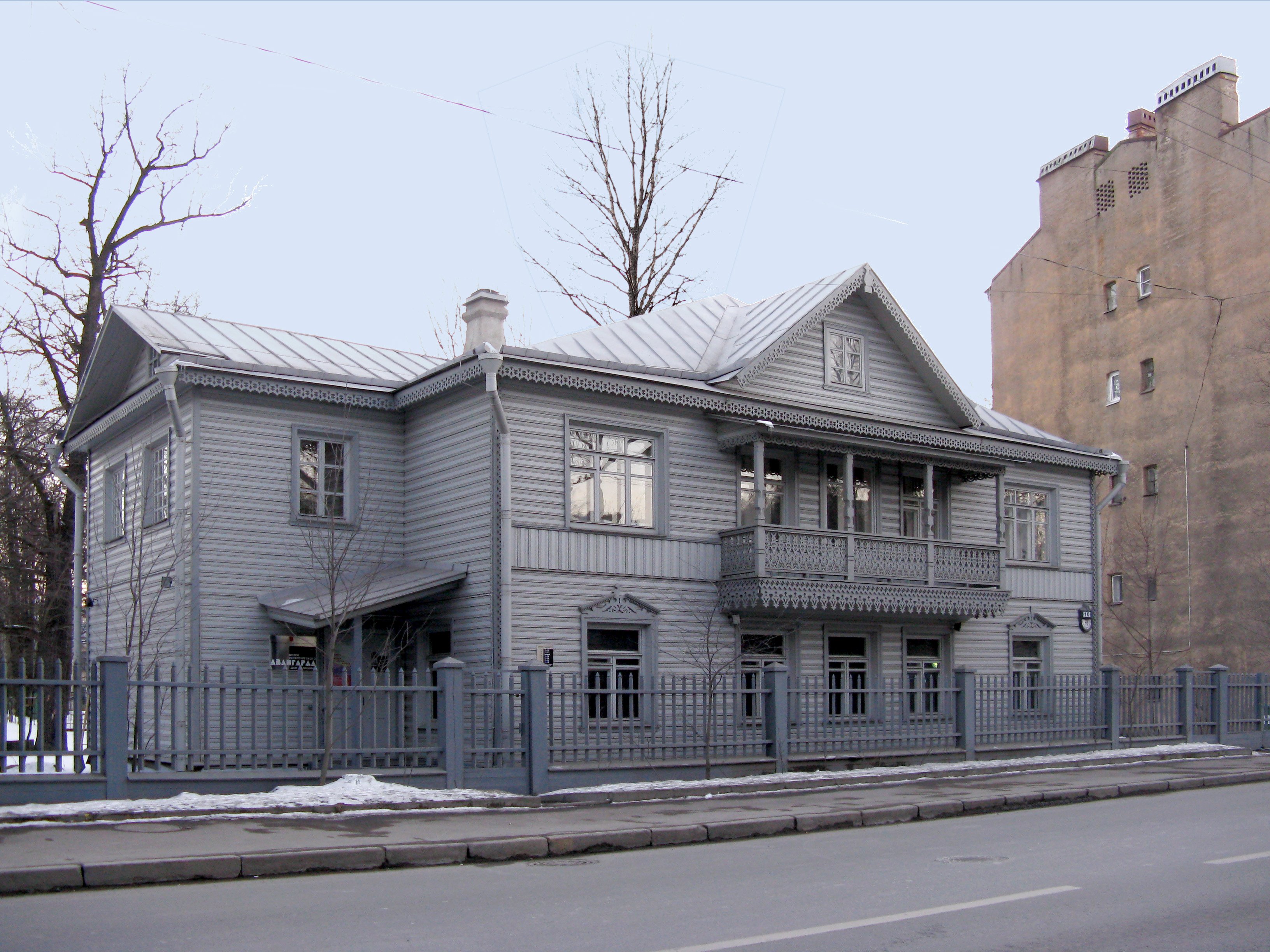 Matushin house (Professora Popova Street, 10), Saint-Petersburg